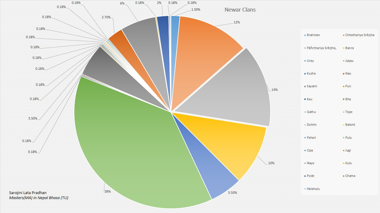 Newar Clan groups visual